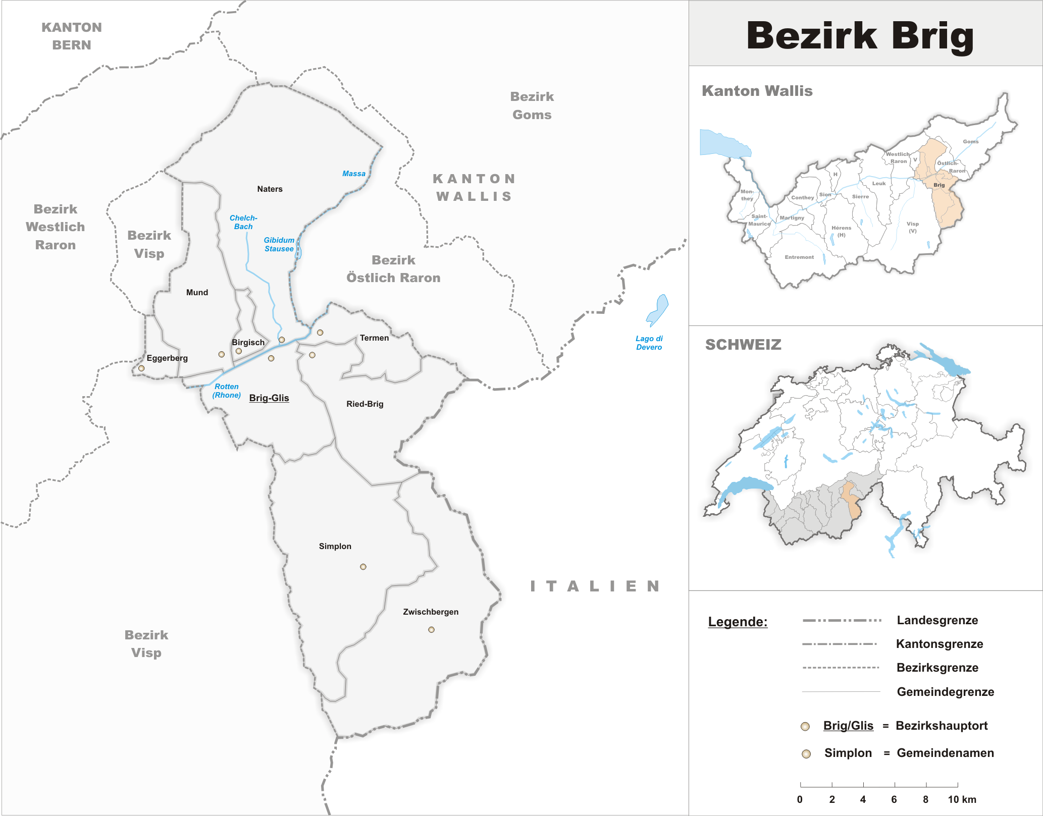 Municipalities in the district of Brig